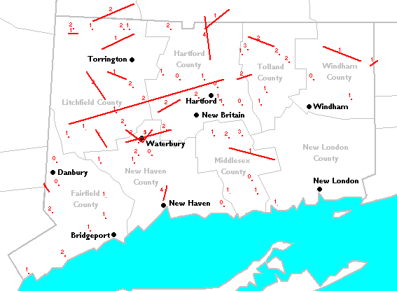 Approximate tracks of all tornadoes which affected Connecticut between 1950 and 1999, plotted with Fujita scale rankings. Derived from an image created using SeverePlot, free software maintained by John Hart, lead forecaster for the Storm Prediction Center.